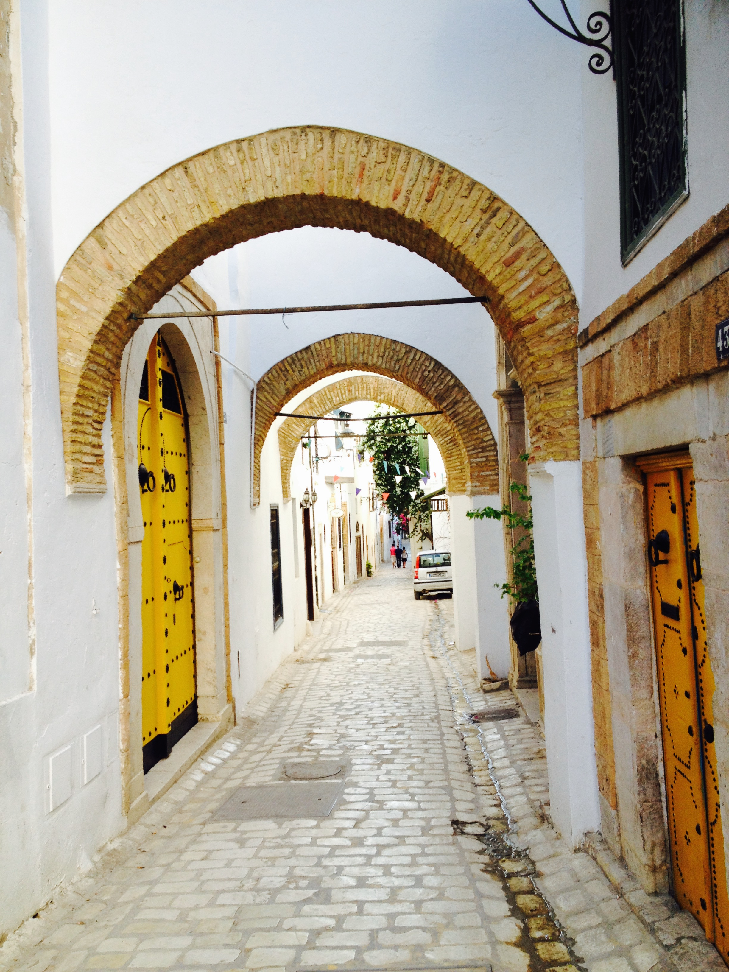 Old Medina of Tunis is a UNESCO world heritage site, considered as a labyrinth of Souks, Museums and palaces from the 17th century.